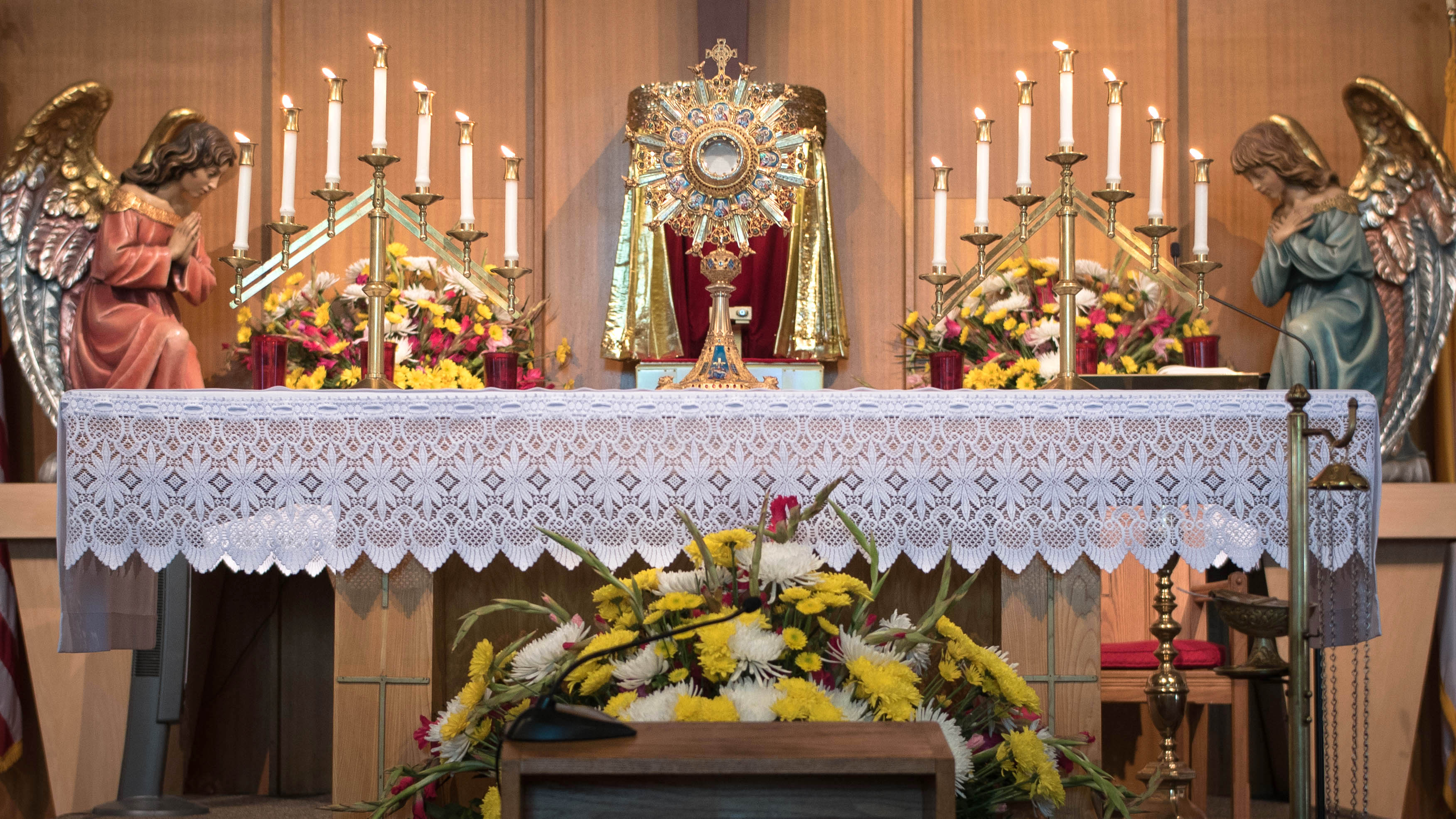 Since 1976, exposition of the Blessed Sacrament is available 24-hours a day, 365 days a year, unless the celebration of the Holy Mass is in progress.